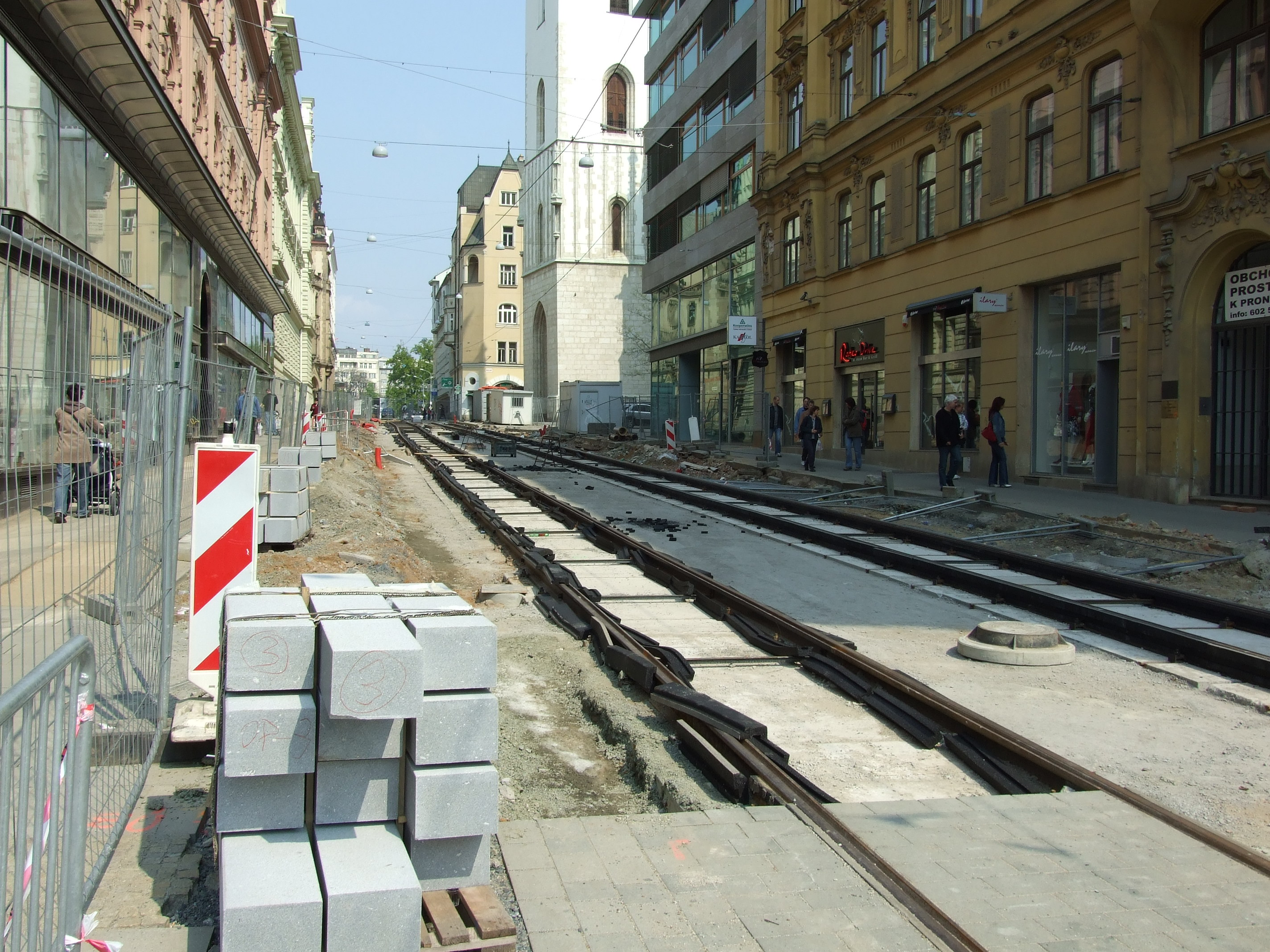 Reconstruction of tram track in Brno, passing through the Svobody squarehelp